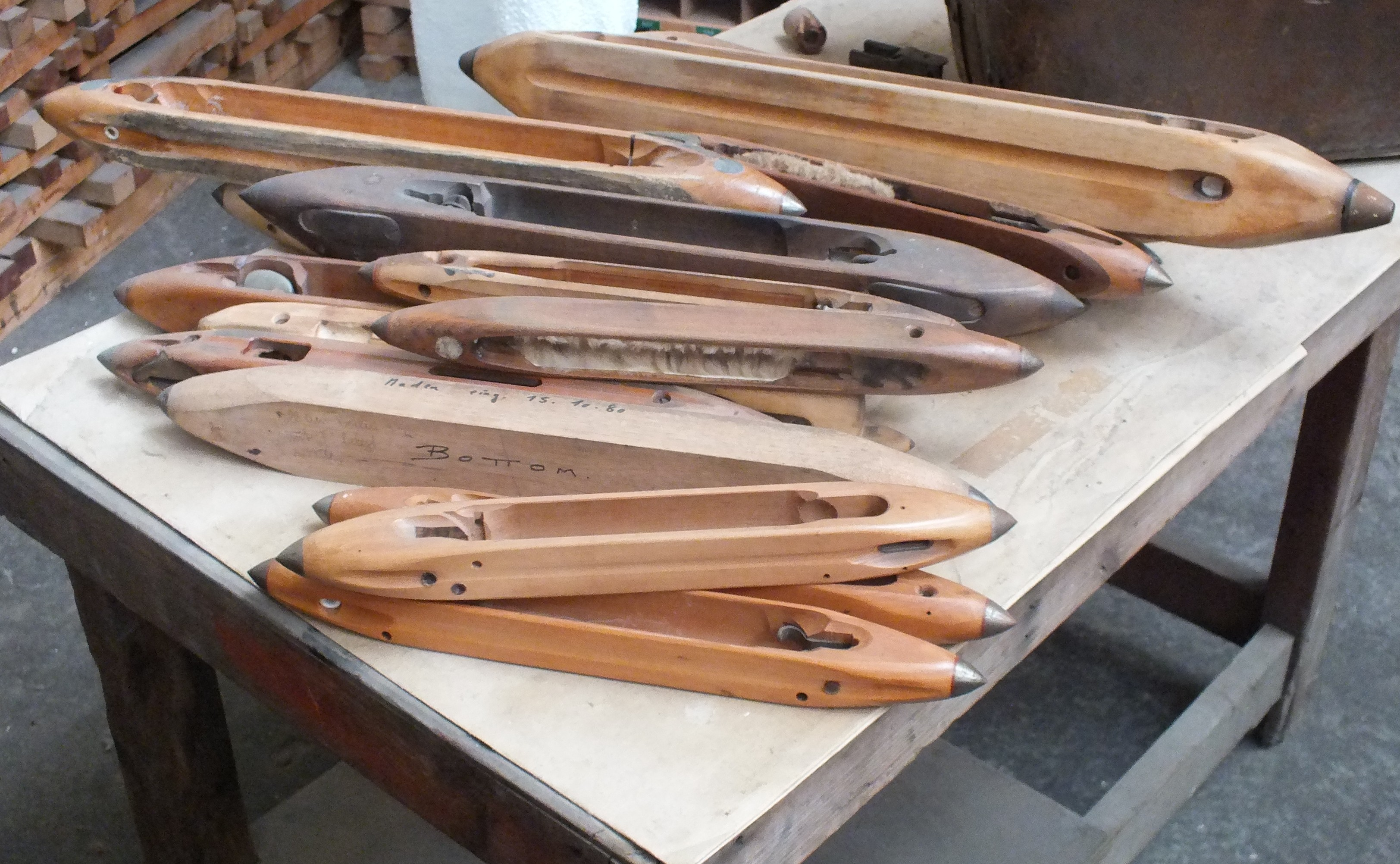 Queen Street Mill in Harle Syke, a suburb to the north-east of Burnley, Lancashire, was built in 1894 for the Queen Street Manufacturing Company. It closed on 12 March 1982 and was mothballed, but was subsequently taken over by Burnley Borough Council and used as a museum. In the 1990s ownership passed to Lancashire Museums. Unique in being the world's only surviving steam-driven weaving shed.